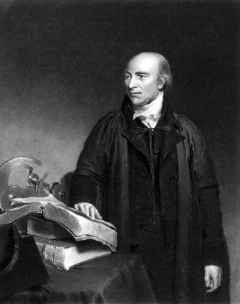 Mezzotint by Henry Dawe of Reverend William Farish (1759-1837)